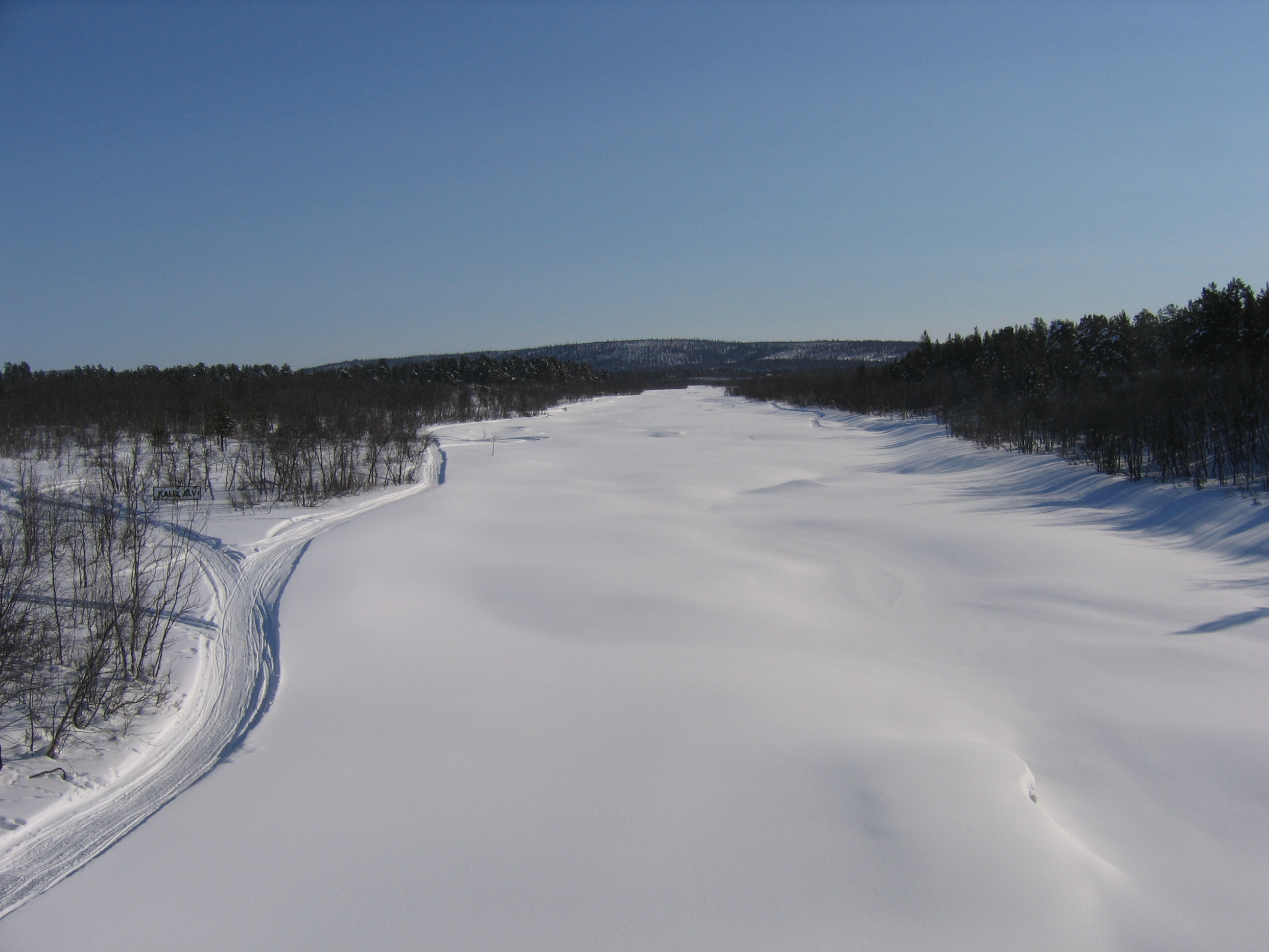 Kalixälven at Kalixforsbron